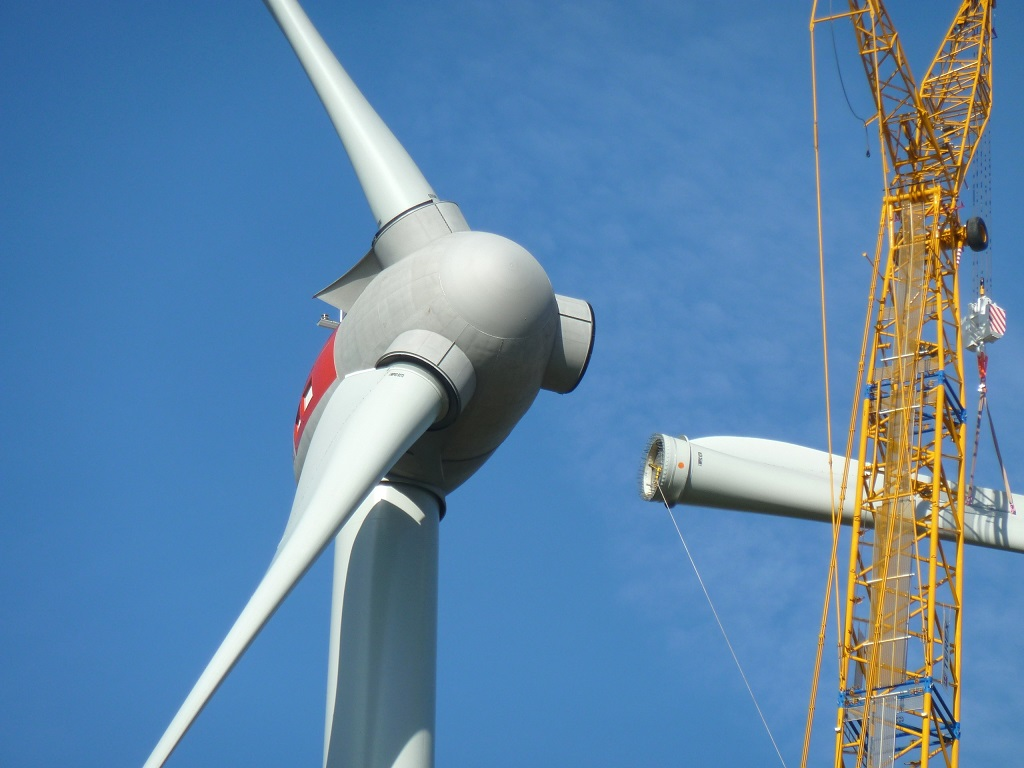 Enercon E-101 rotor blade assembly with crawler crane during the repowering of the Freiensteinau wind farm (Hesse, Germany).